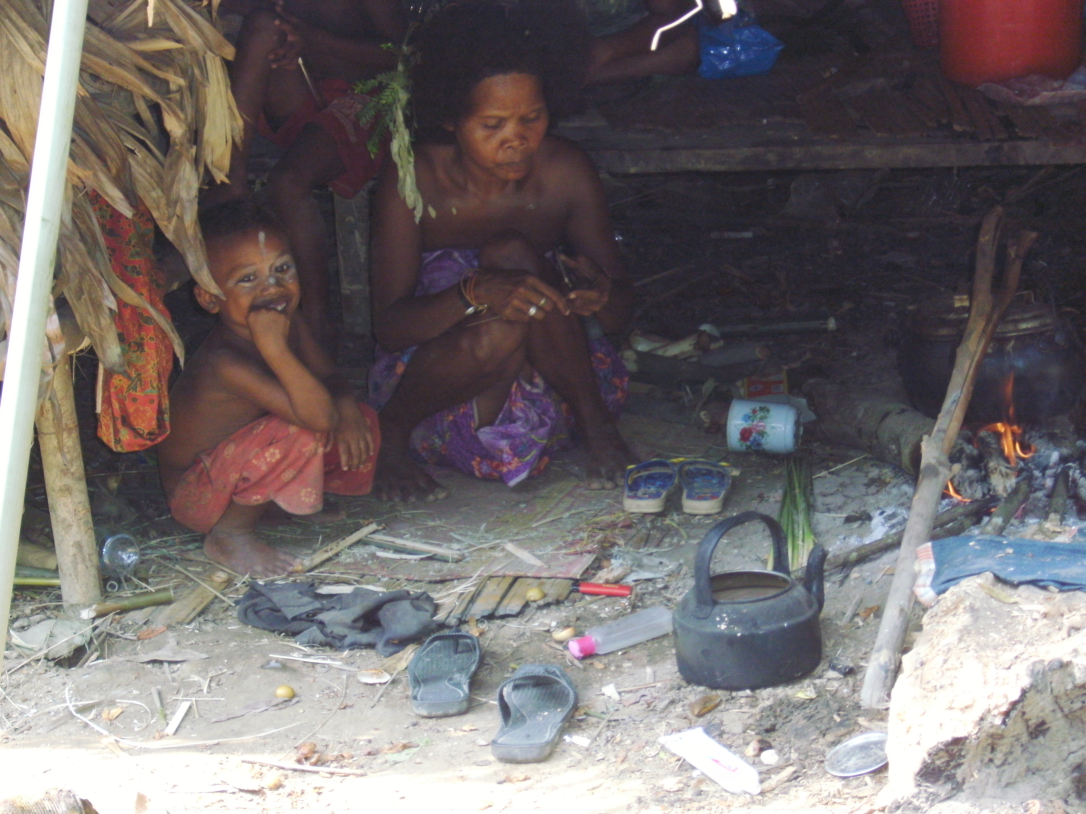 Indigenous people of Malaysia, Orang Asli